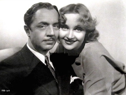 Carole Lombard and William Powell in a publicity still for the film My Man Godfrey (1936)